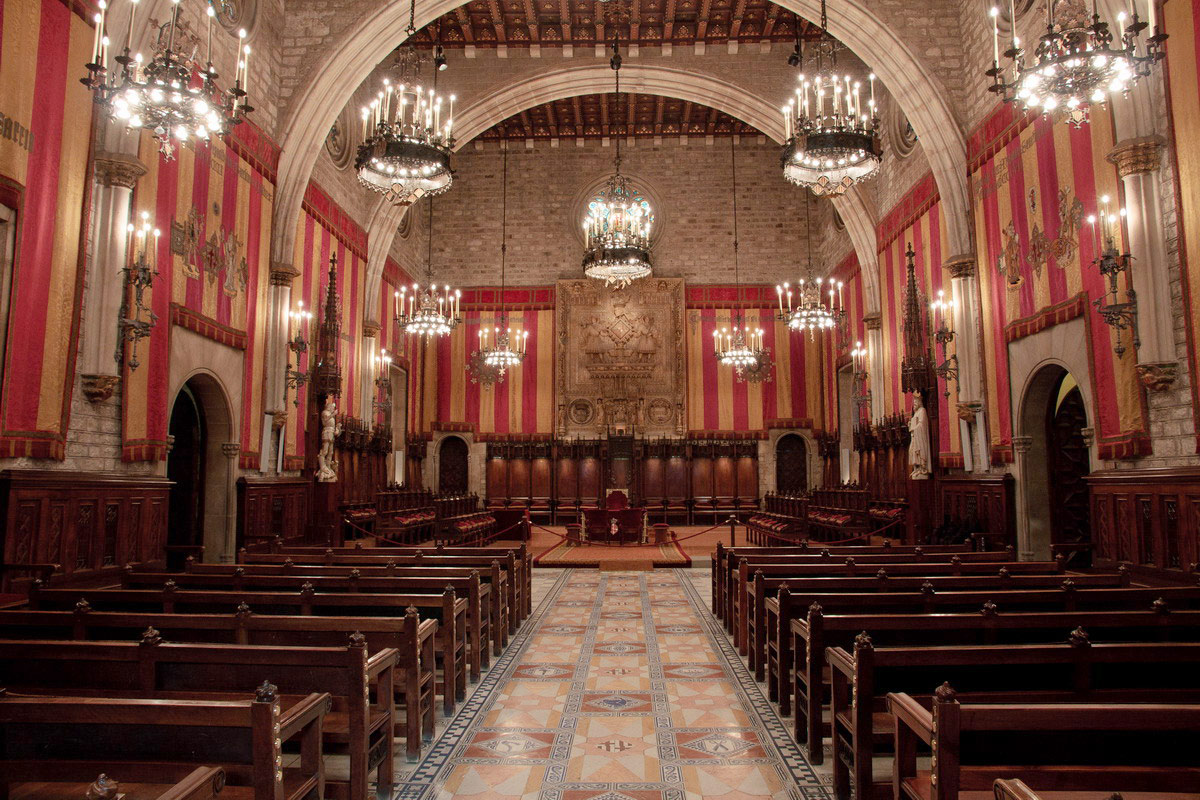 Barcelona. City Hall. Saló de Cent